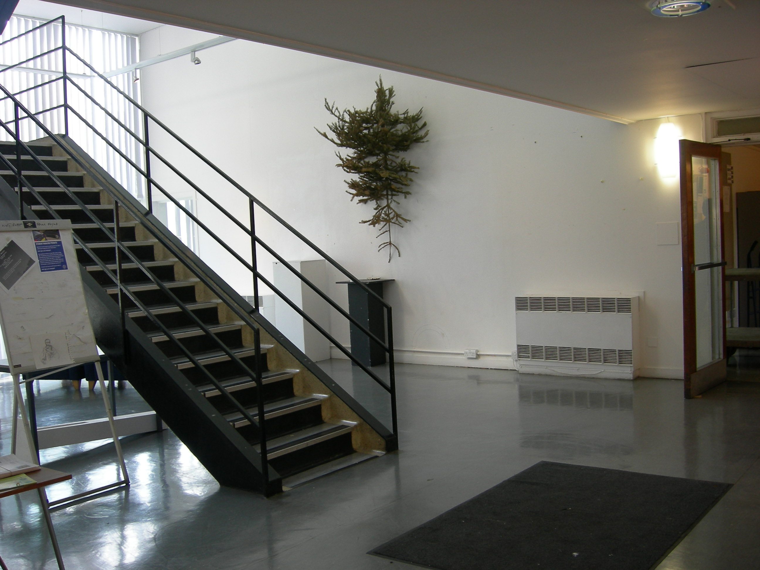 Author: Fraser Denholm. Category:Aberdeen